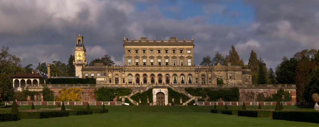 Cliveden, view looking north from the Ring in the Parterre showing Terrace Pavilion and Clock Tower to the left with Lower Terrace and Borghese Balustrade below